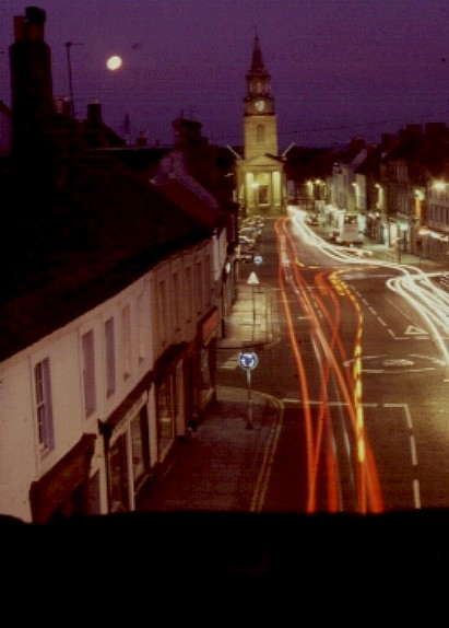 Berwick High Street Winter Evening. Time exposure taken from the Town Walls.